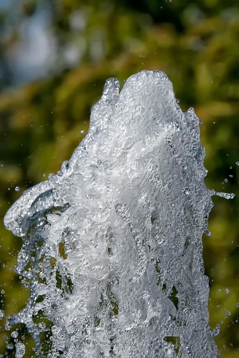 Water fountain....stopped with fast shutter speed.